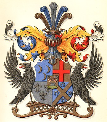 Coat of arms of the Fabritus de Tengnagel family